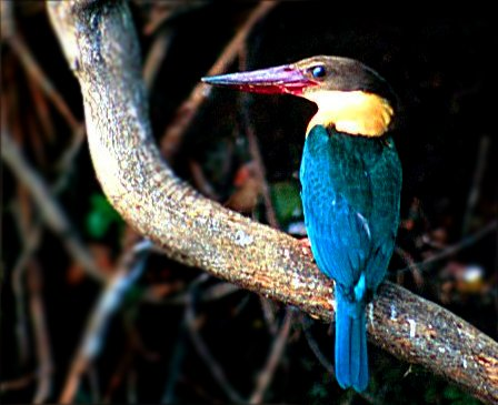 Stork Billed Kigfisher